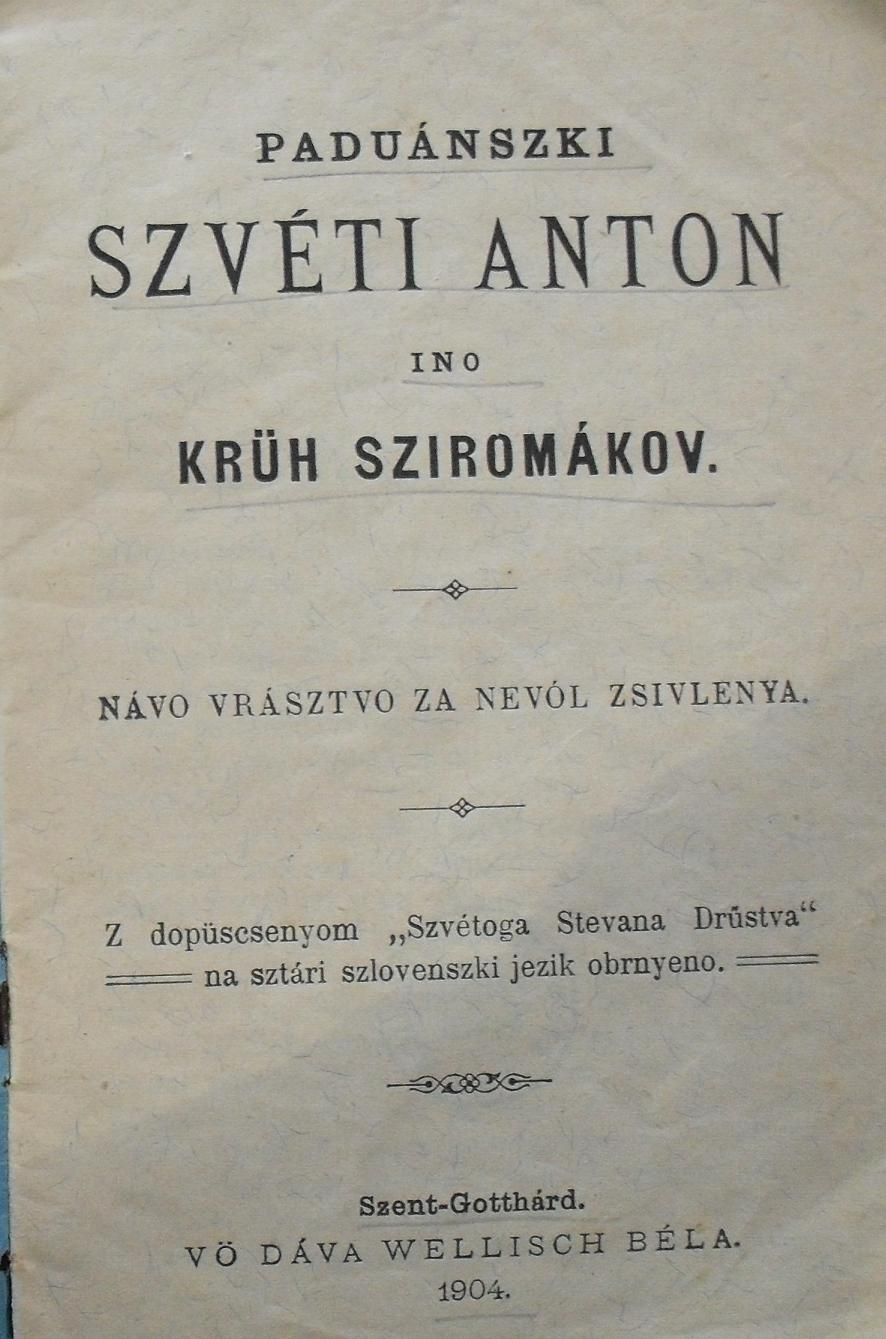 József Pusztai: Paduánszki szvéti Anton ino krűh sziromákov (Anthony of Padua and the bread of have-nots), prayer-book in prekmurian language from 1893 (the date is false in the first page)